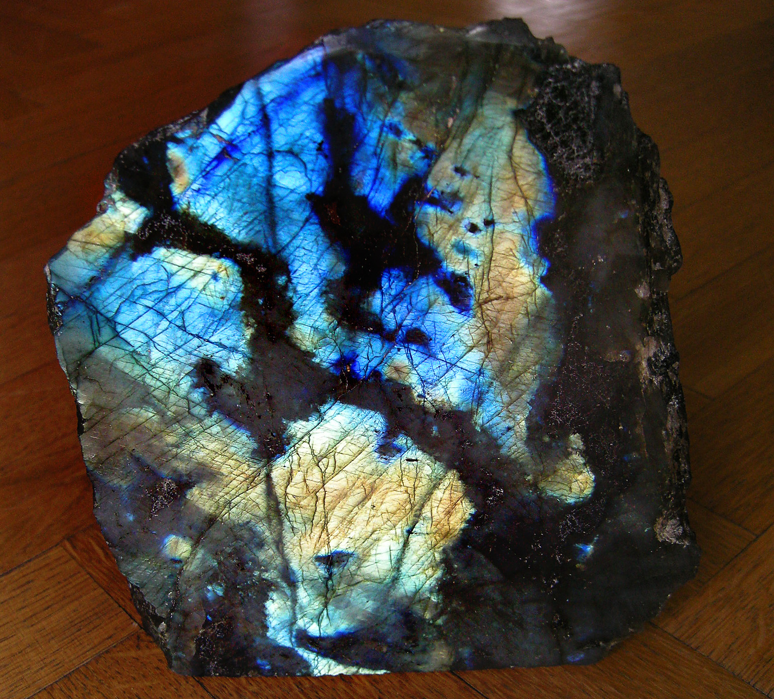 Specimen of labradorite from Madagascar. 20cm.